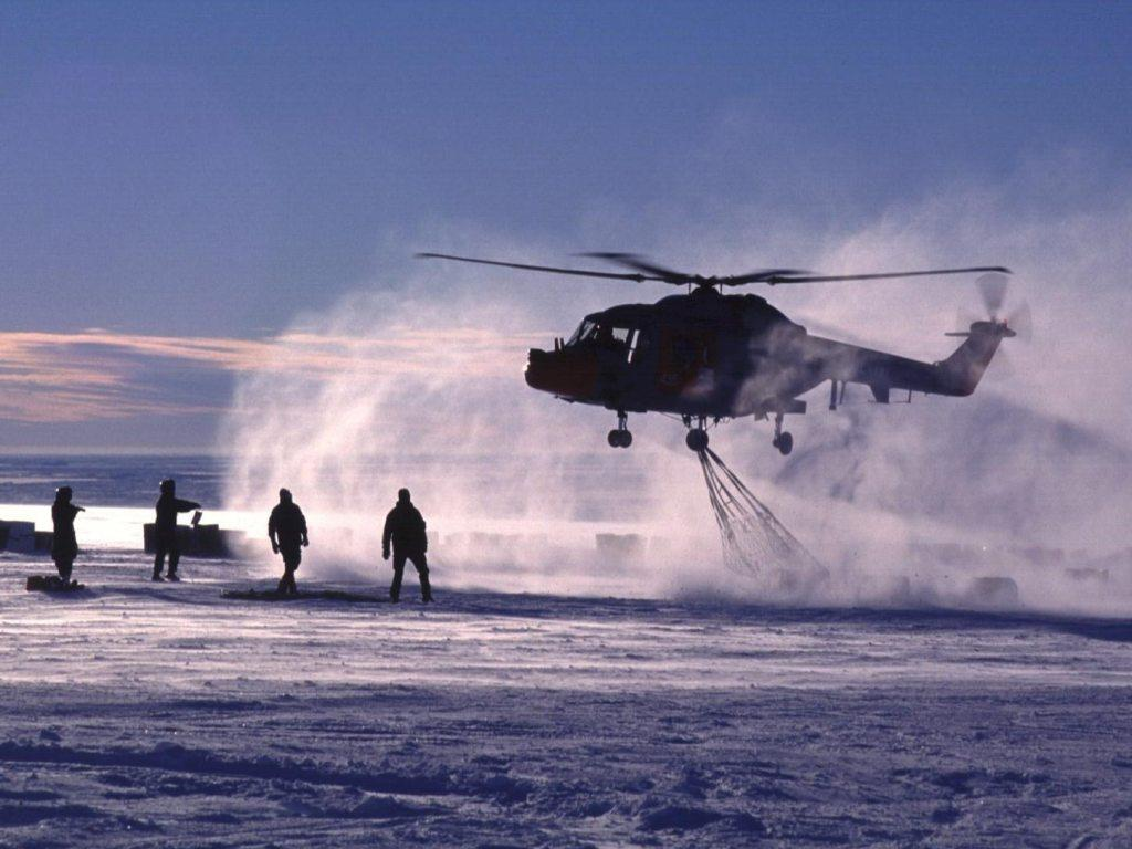 Lynx Helicopter moving fuel drums in Antarctica